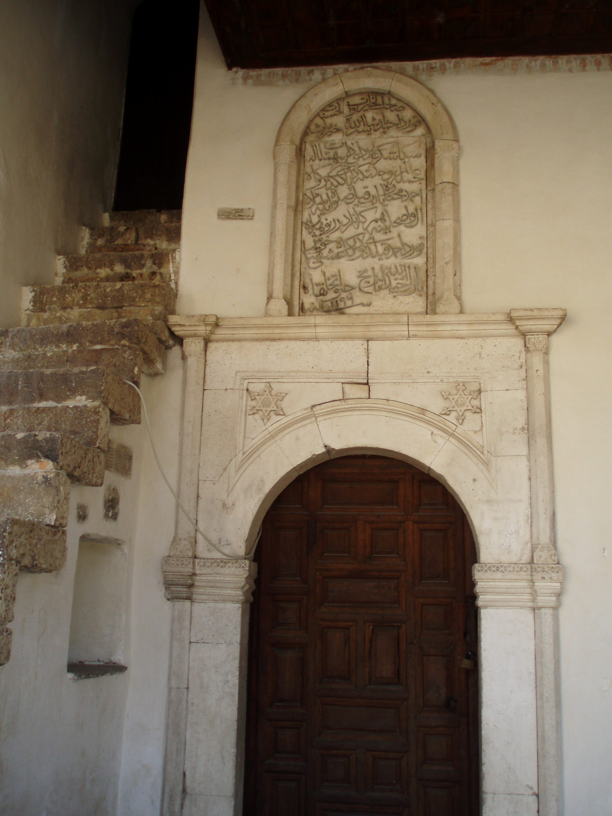 an Arabic Script (mostly Ottmanli Turkish or Albanian) inscription on the outside of the Halveti-Tekke in Berat, Albania